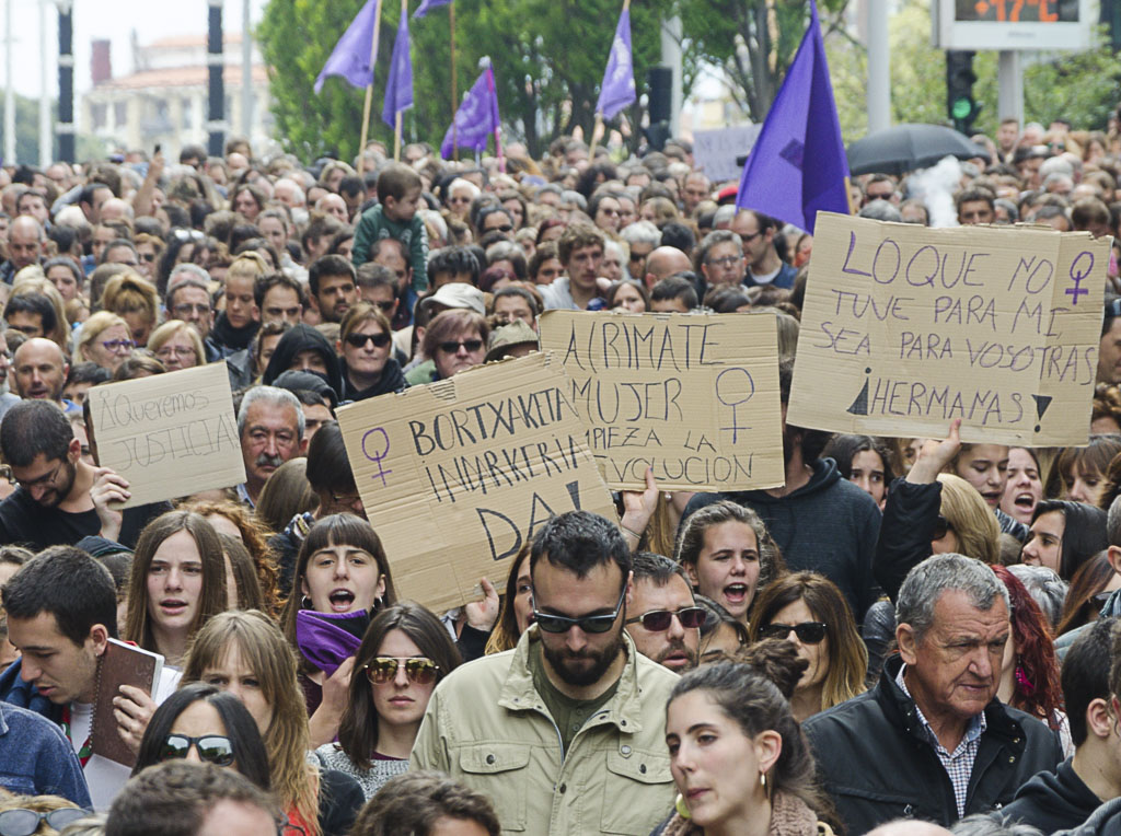 Outcry against the gang rape case sentence in Pamplona